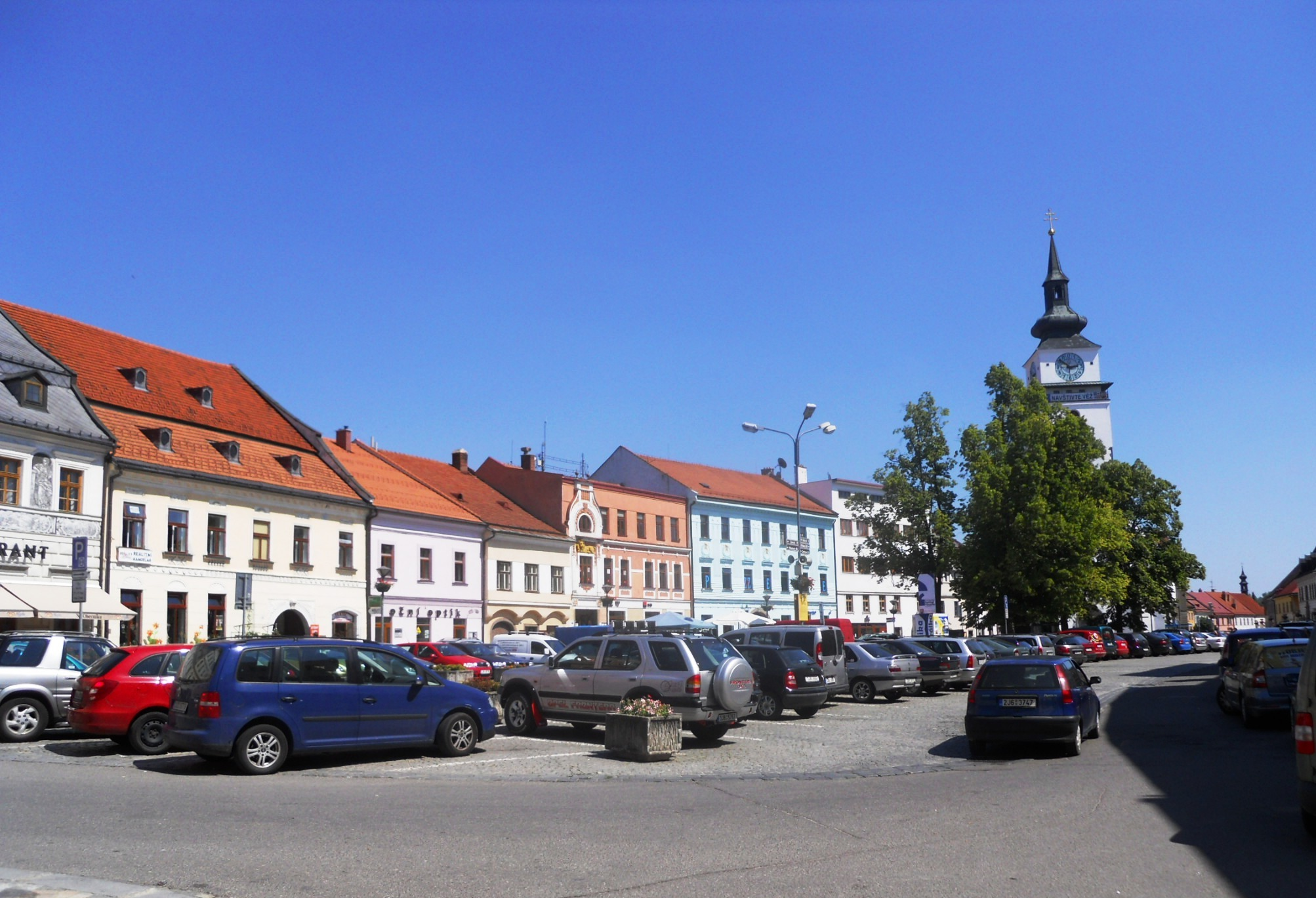 Velké Meziříčí, square from NW